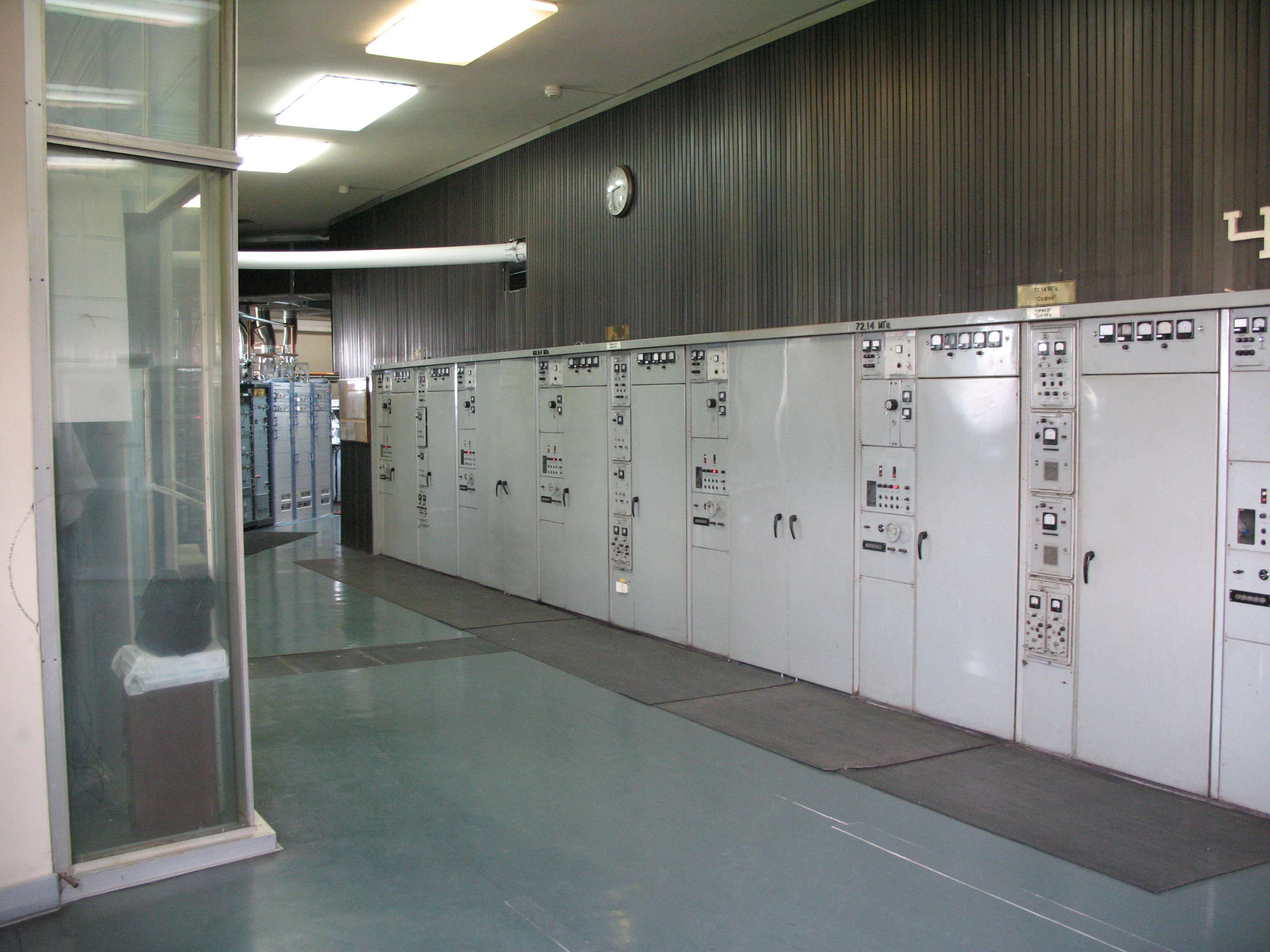 Radio-center of Ostankino TV Tower